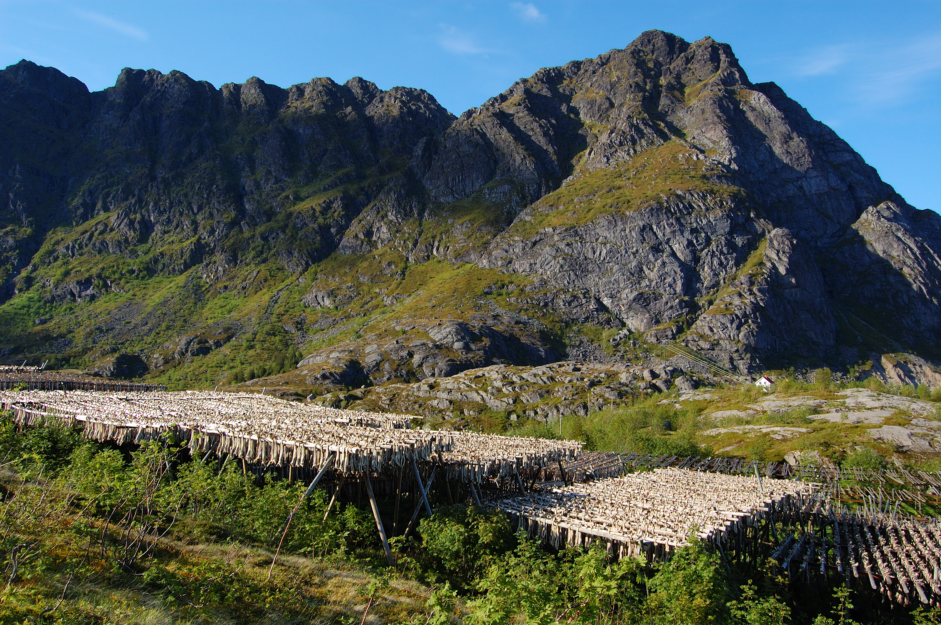 Stockfish drying flakes in Å, Lofoten, Norway.